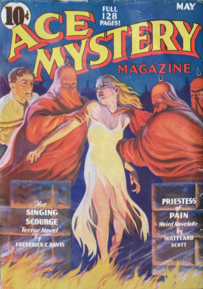 Ace Mystery, May 1936